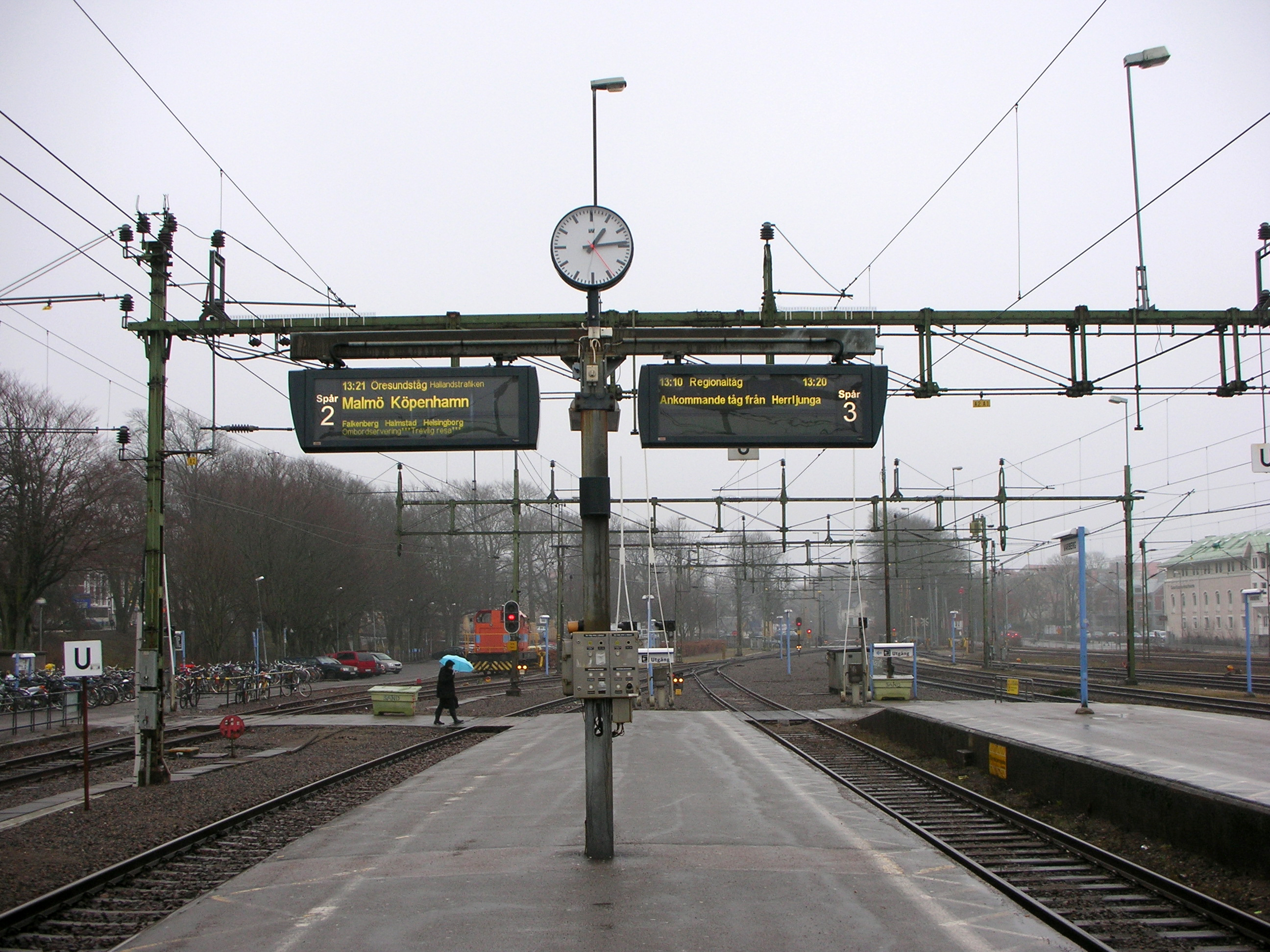 Varberg Railway Station.